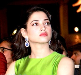 Tamannaah Bhatia at IIFA Utsavam 2016 Hyderabad, snapped on January 24,2016